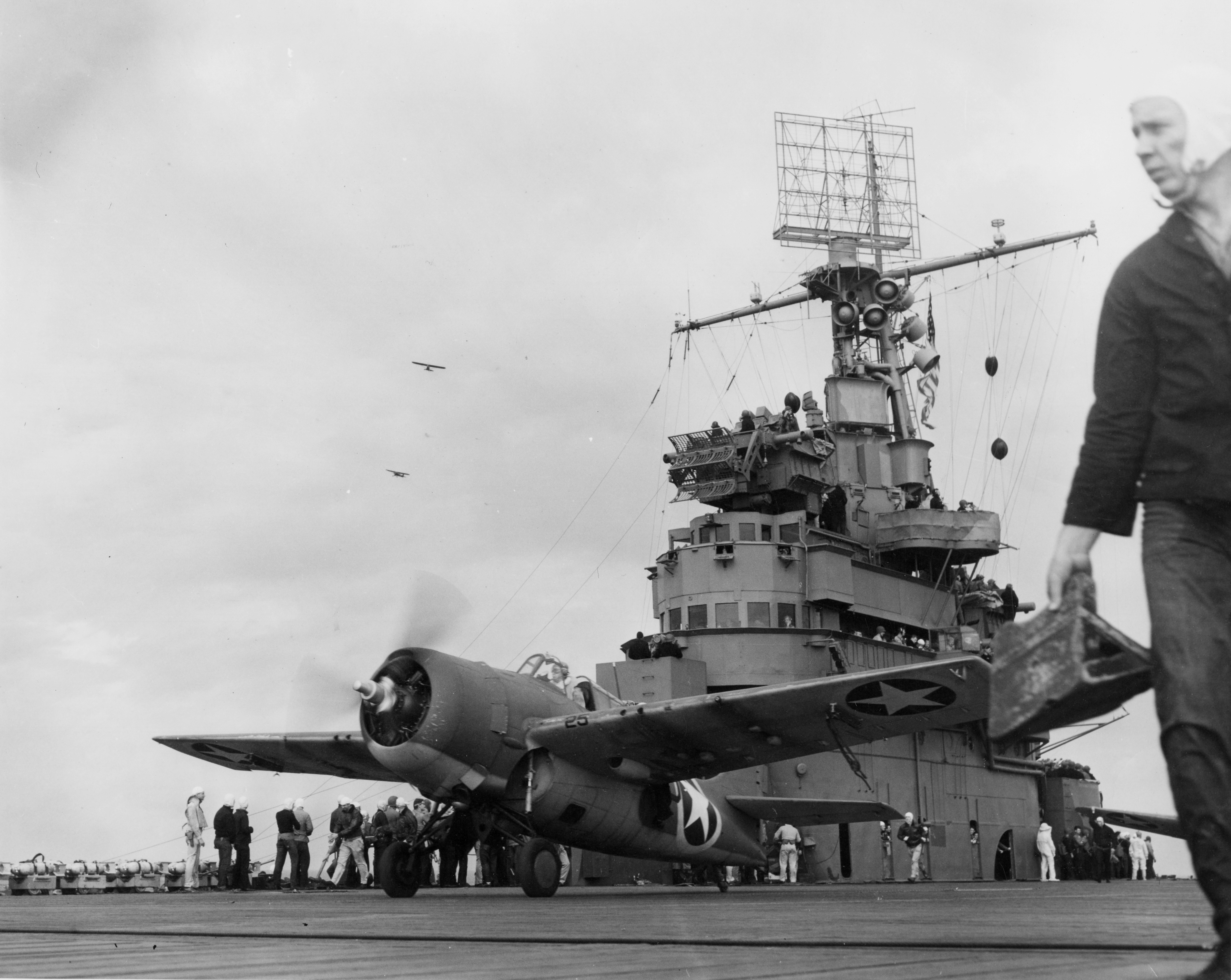 A U.S. Navy Grumman F4F-4 Wildcat fighter taking off from the aircraft carrier USS Ranger (CV-4) to attack targets ashore during the invasion of Morocco, circa 8 November 1942. Note the U.S. Army observation planes in the left middle distance and the loudspeakers and radar antenna on Ranger's mast.